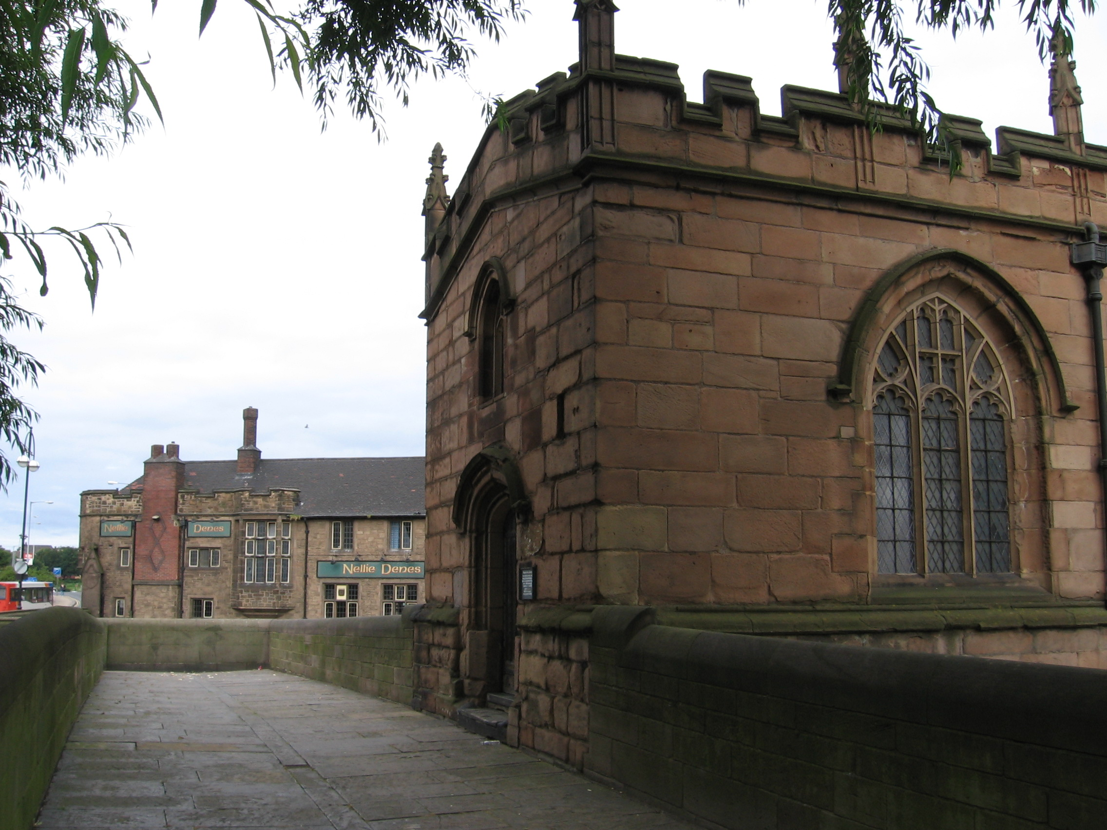 Rotherham - Chantry Chapel and Nellie Denes